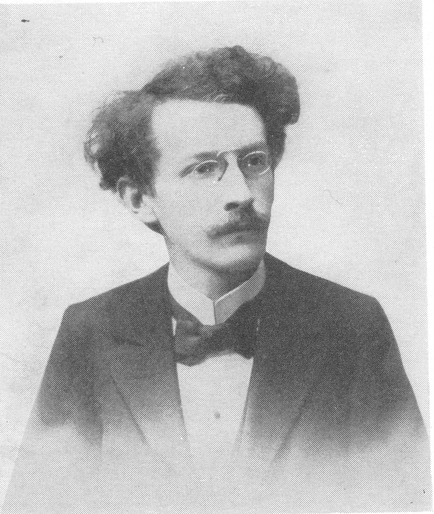 The musicologist Zdeněk Nejedlý, a 1905 photograph